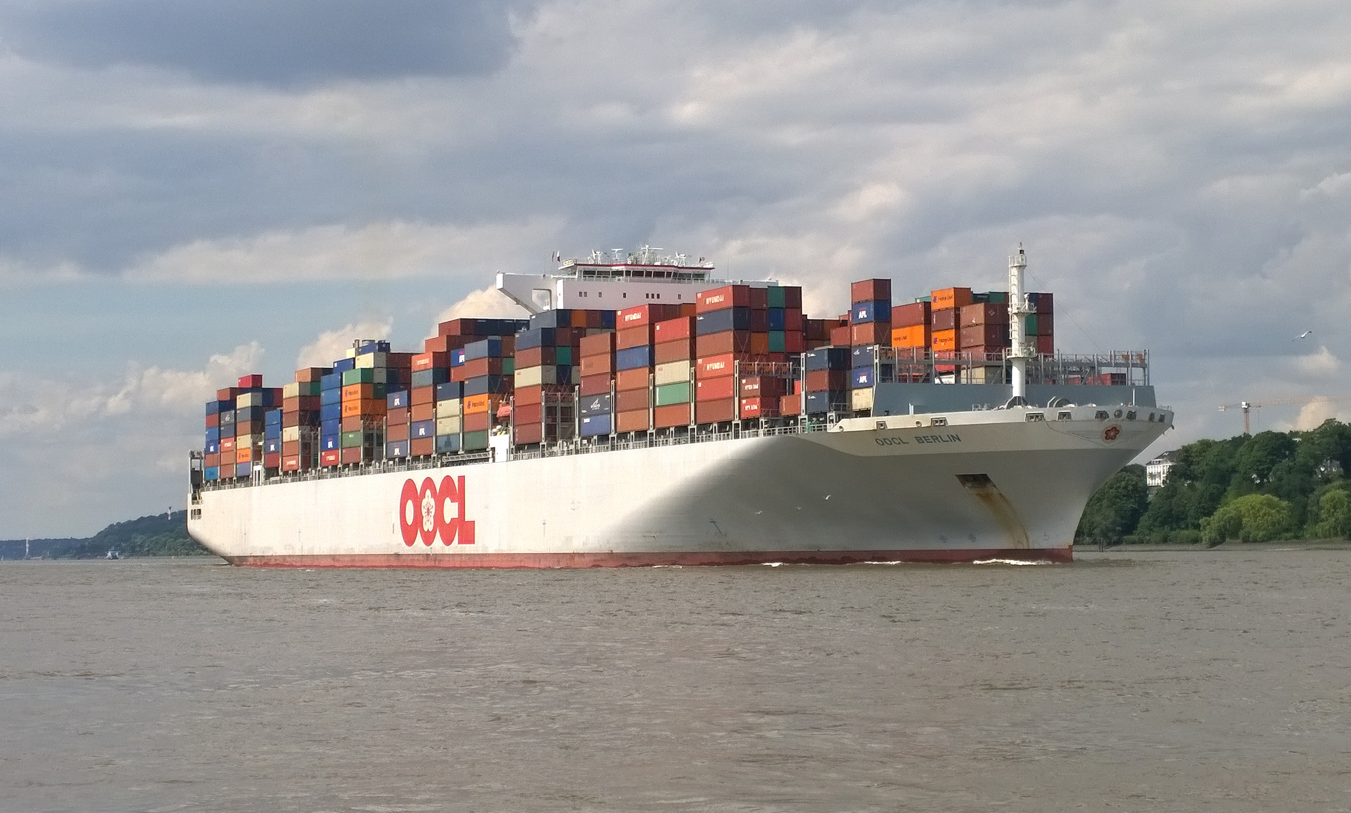 Container ship OOCL Berlin on the river Elbe with the port of destination in Hamburg in July 2016